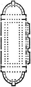 Basilica Ulpia, Rome, plan.